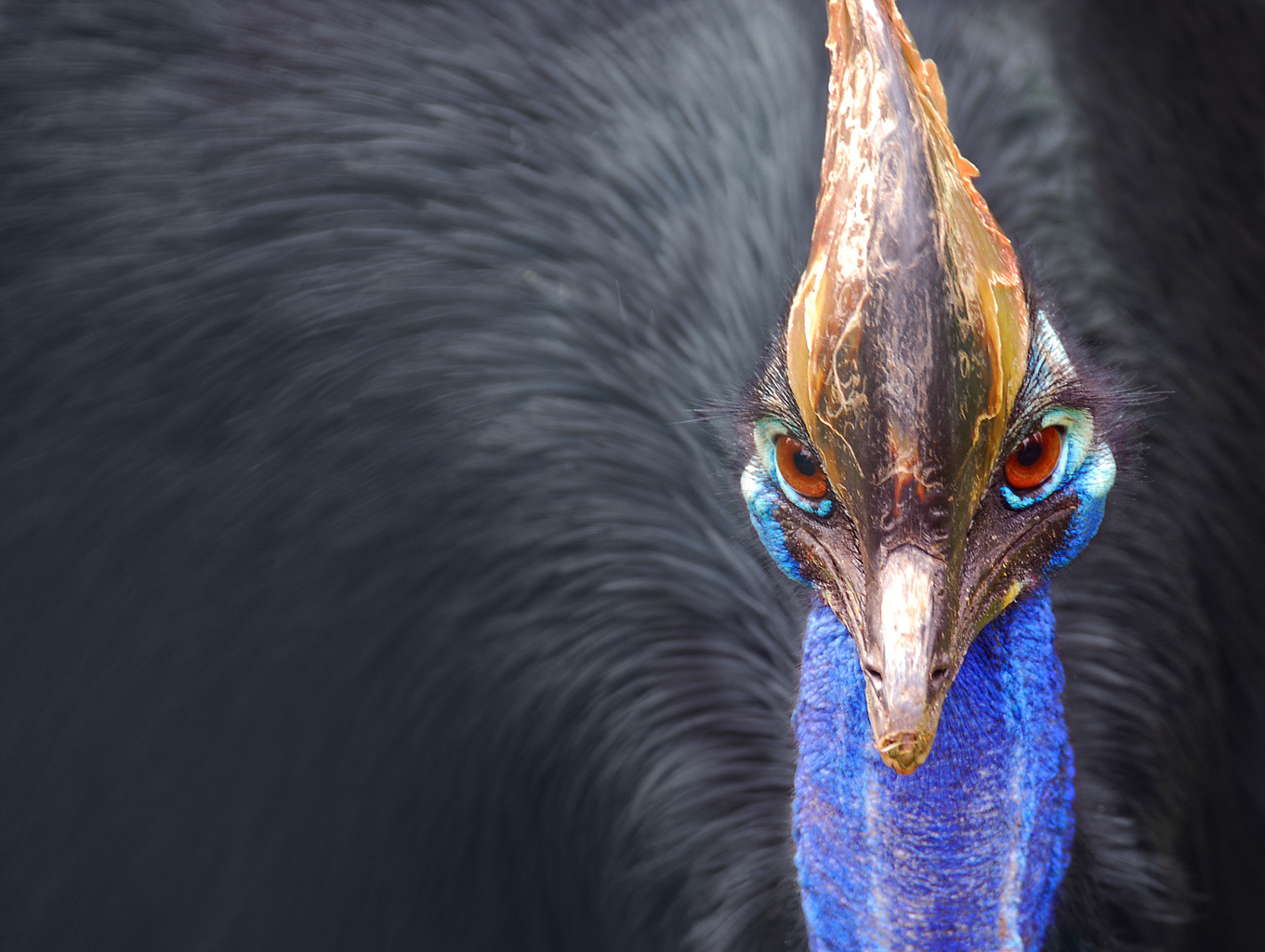 The head of a Southern Cassowary (Casuarius casuarius).